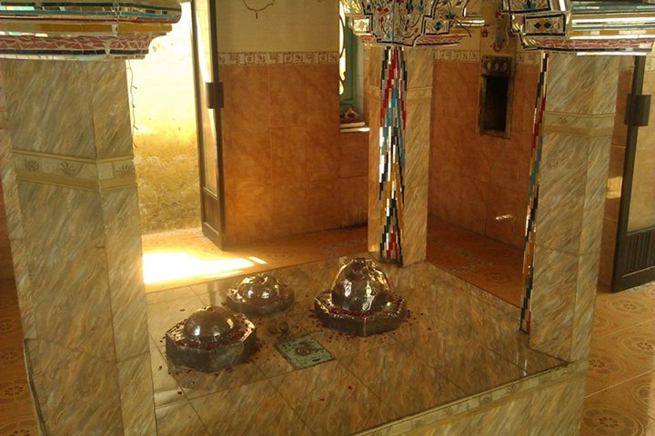 Kamber Darbar Samadhi